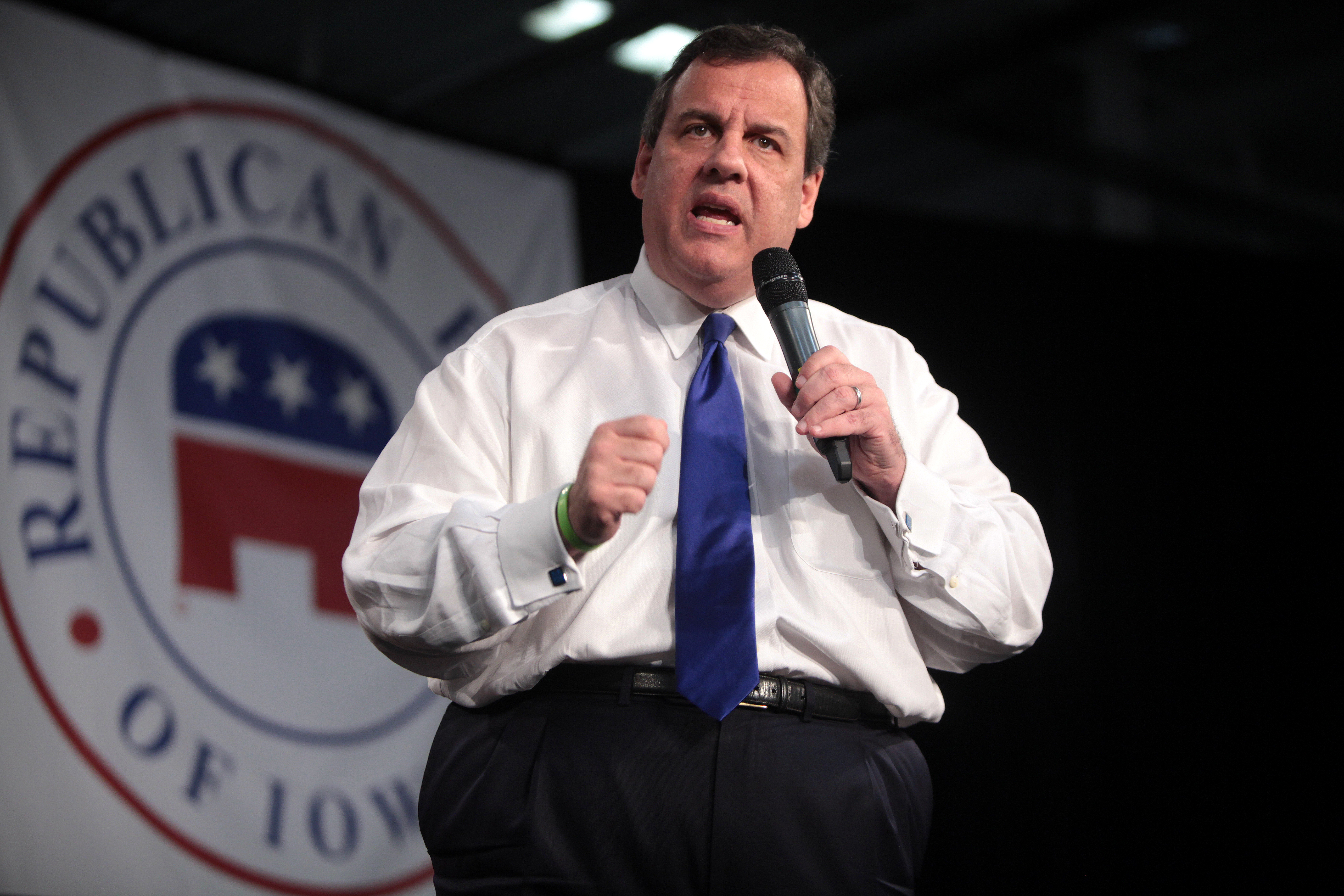 Chris Christie speaking in Des Moines, Iowa.